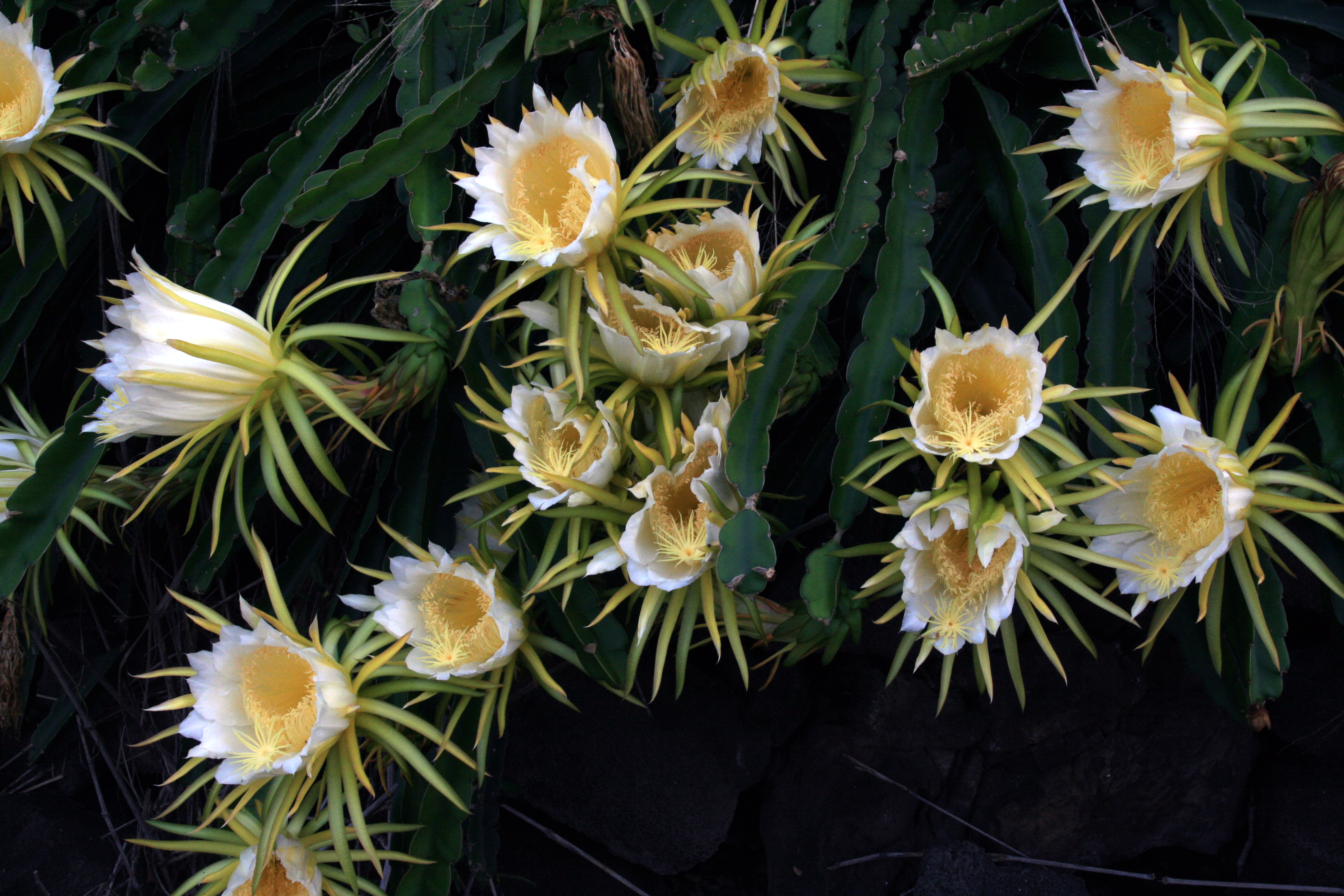 Hylocereus undatus in bloom in Kona.